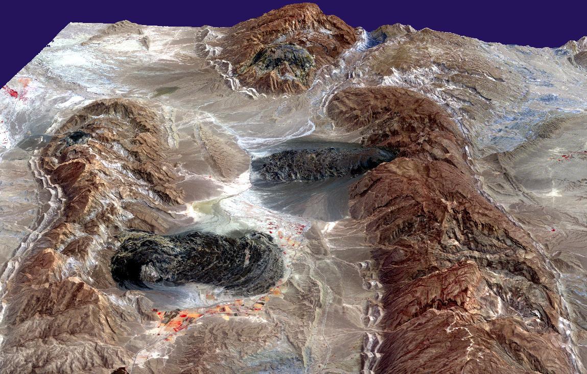 Satellite imagery of salt domes and salt glaciers, visible as darkish irregular patches, Zagros Mountains, southern Iran, near Karmowstaj. Gravity has caused the salt to flow like glaciers into adjacent valleys. The resulting tongue-shaped bodies are more than 5 kilometers long, with repeating bow-shaped ridges separated by crevasse-like gullies and with steep sides and fronts. The darker tones are due to clays brought up with the salt, as well as the probable accumulation of airborne dust. This Aster perspective view was created by draping a band 3-2-1 (RGB) image over an ASTER-derived Digital Elevation Model (2x vertical exaggeration).